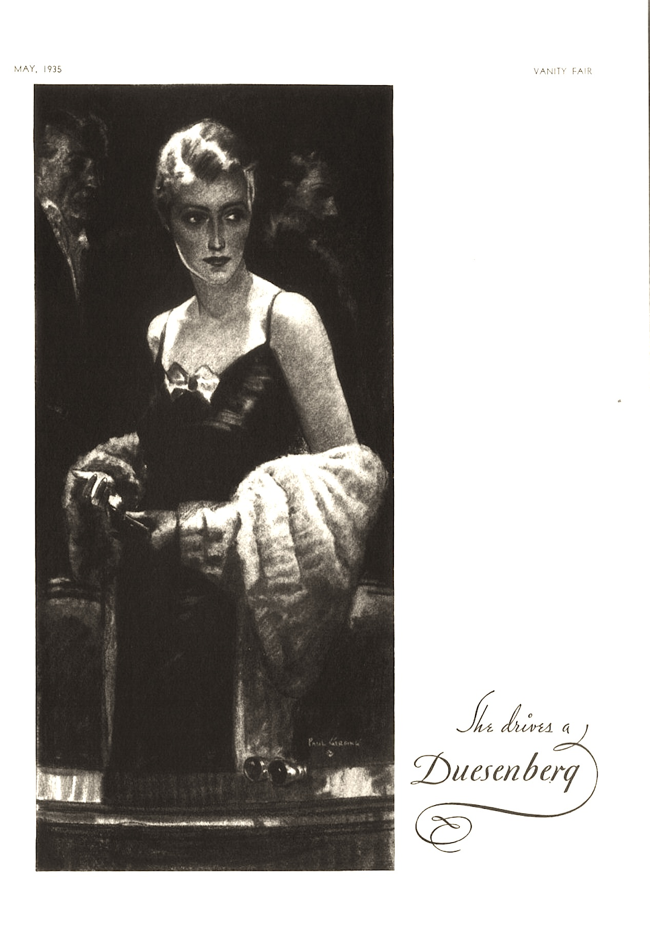 Duesenberg J advertisement published in the magazine "Vanity Fair" in 1935.